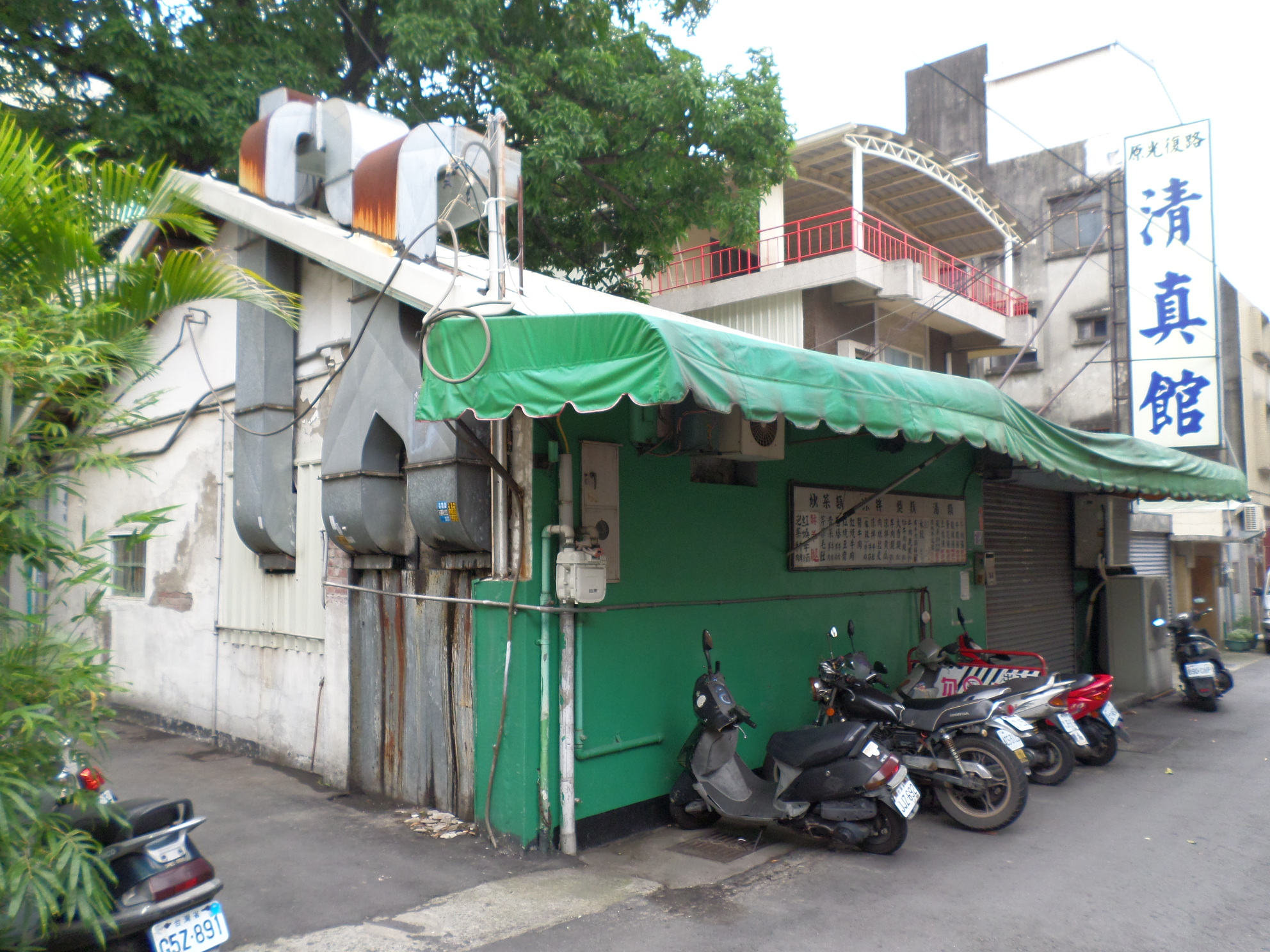 Taichung Mosque First Building, No. 12, Lane 165, Zhongxiao Road, South District, Taichung City, Taiwan